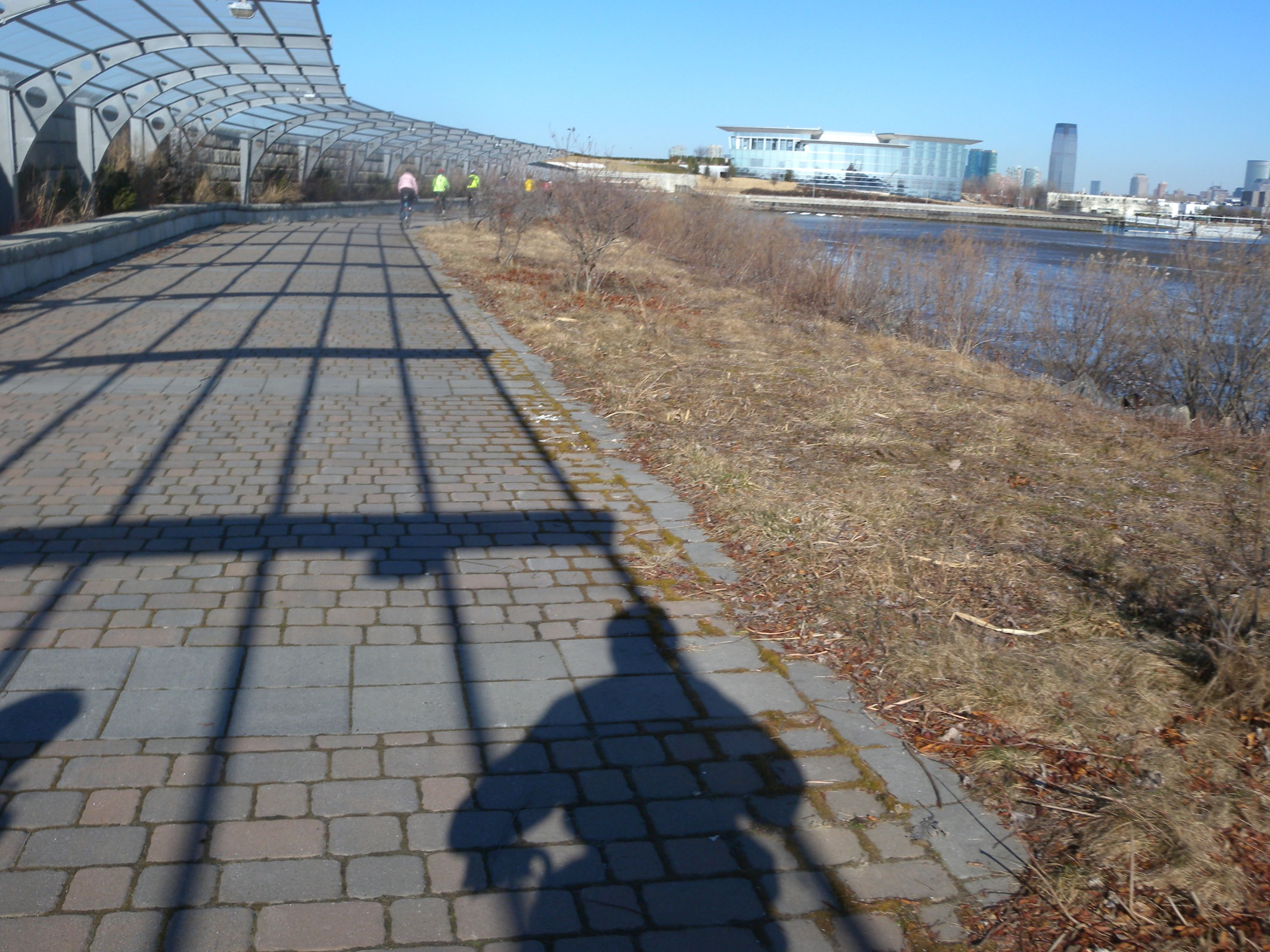 Pedalling northeast along HRWW (Hudson River Waterfront Walkway) — paved in stones, between Liberty golf course and the harbor, on a sunny early afternoon. Metal pergola runs along the left side.